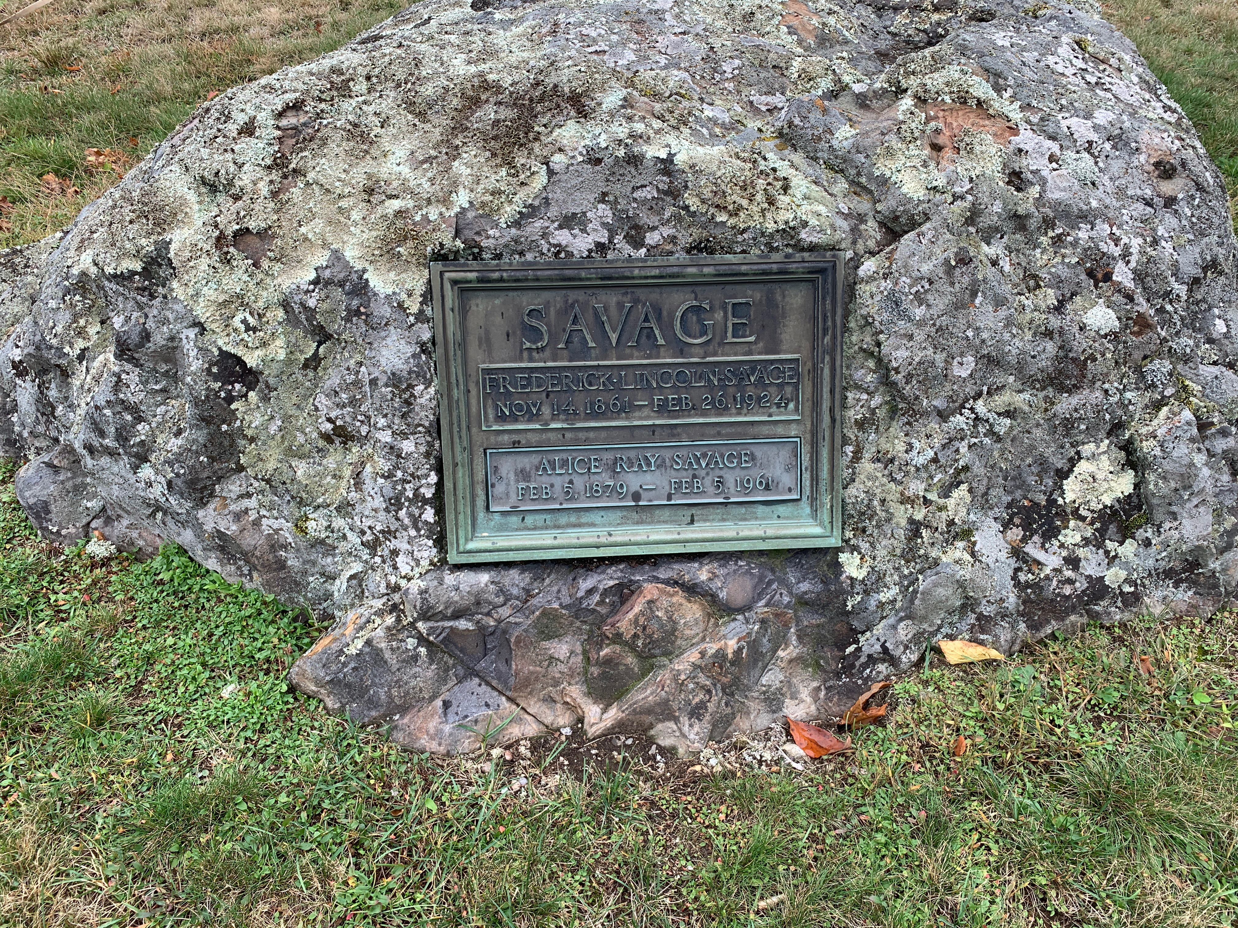 Gravestone of Frederick L. Savage and his wife, Alice, at Ledgelawn Cemetery in Bar Harbor, Maine.